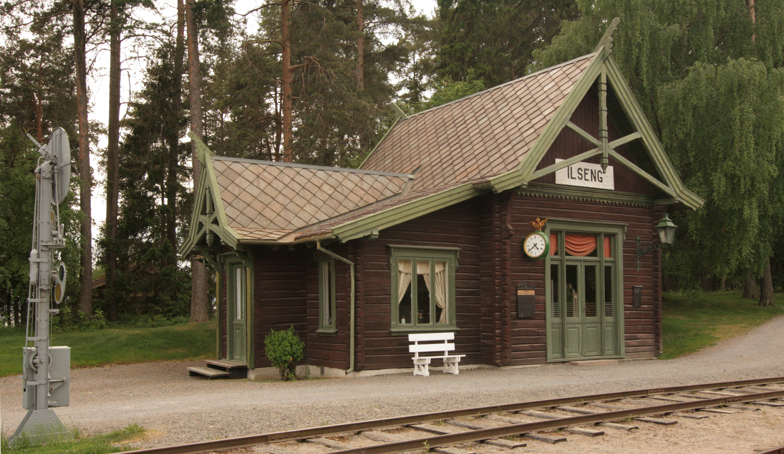 The first station building at Ilseng, Rørosbanen. Today at Norwegian Railway Museum, Hamar.